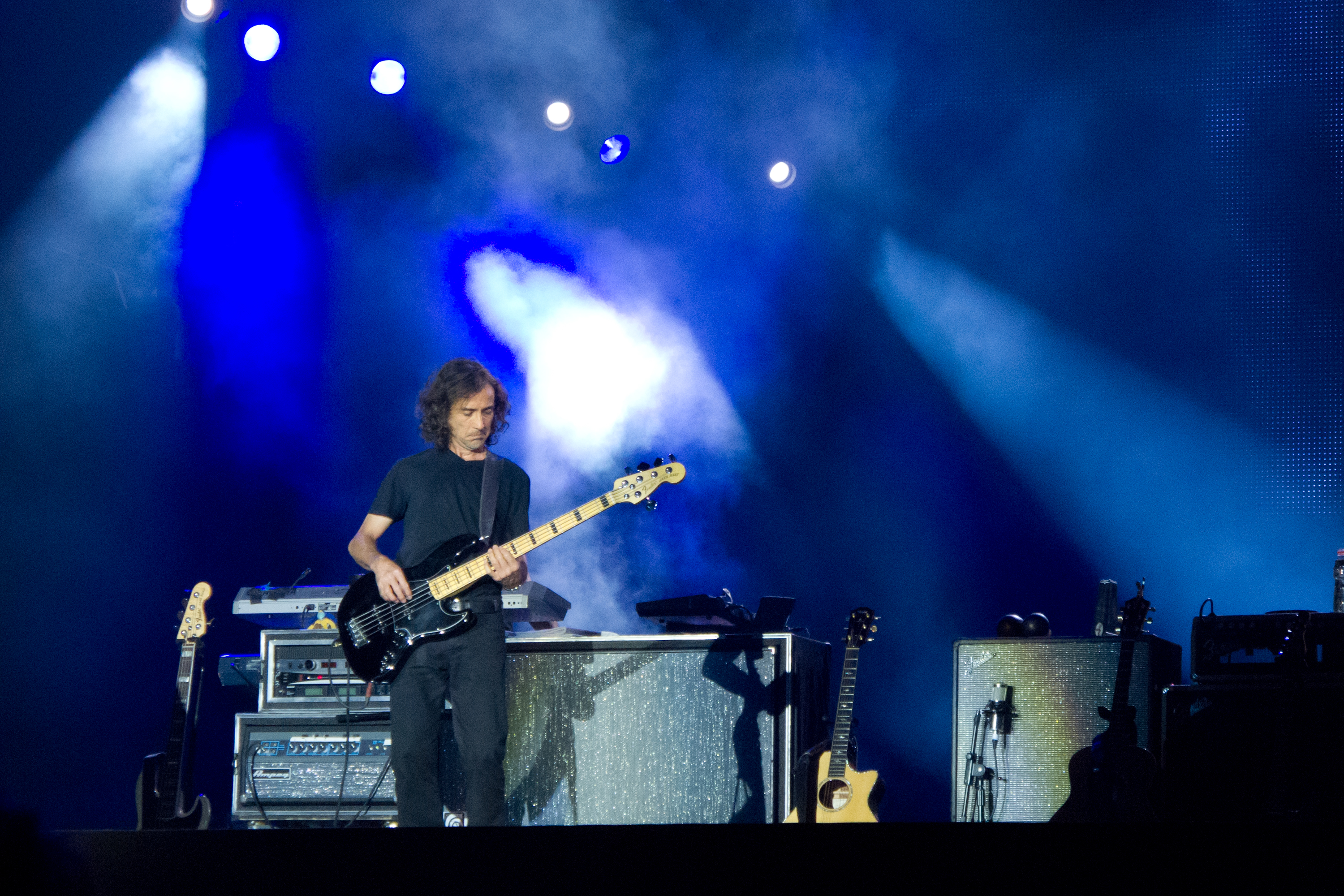 Maná in concert in Rock in Rio in Madrid in 2012.